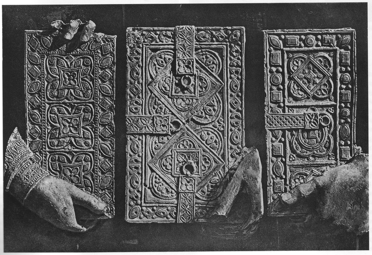 Details from the southern nave portal of Chartres cathedral, heliography by Charles Nègre.